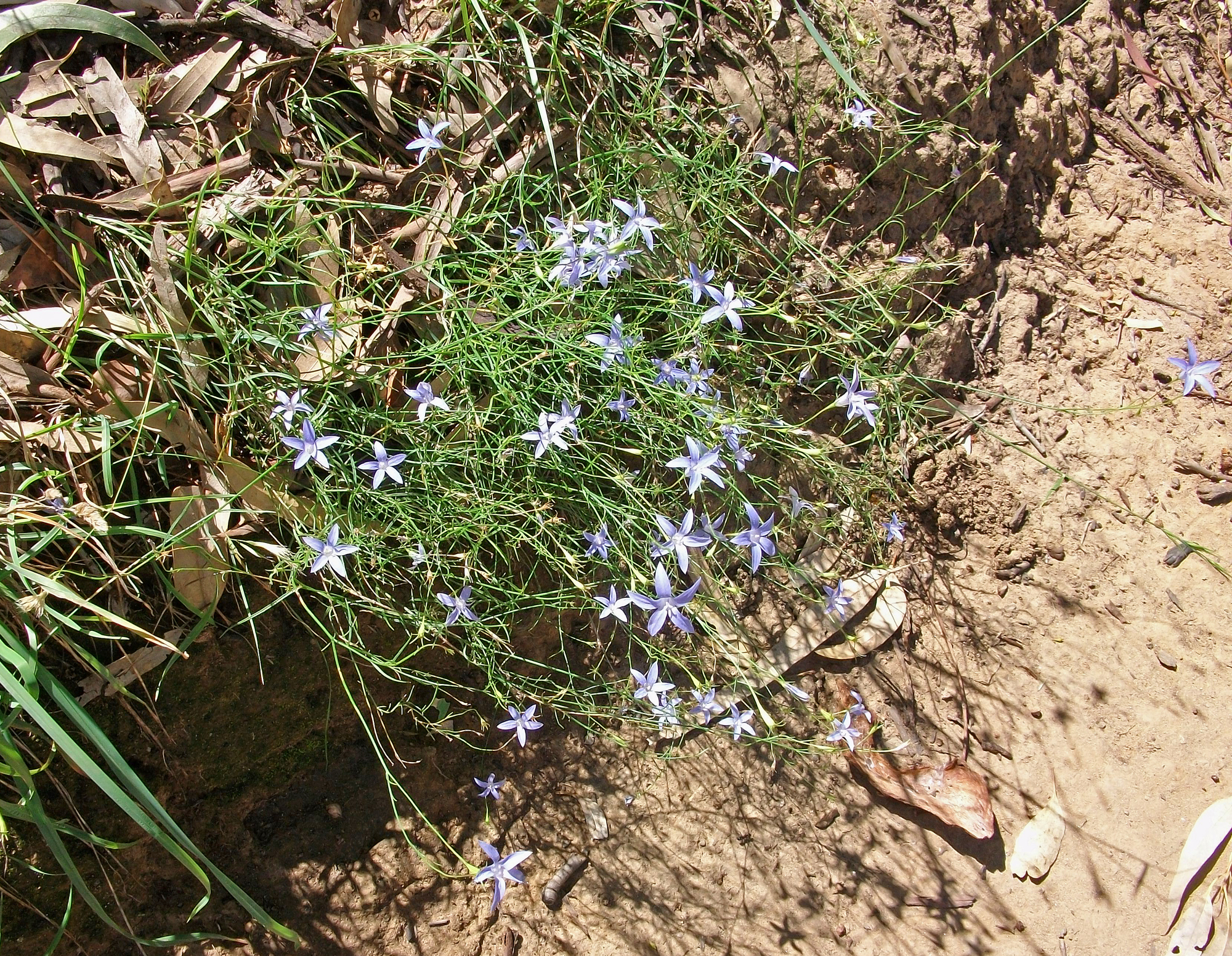 Wahlenbergia stricta on the banks of the Murrumbidgee River, near "The Rocks" at Wagga Wagga, New South Wales.